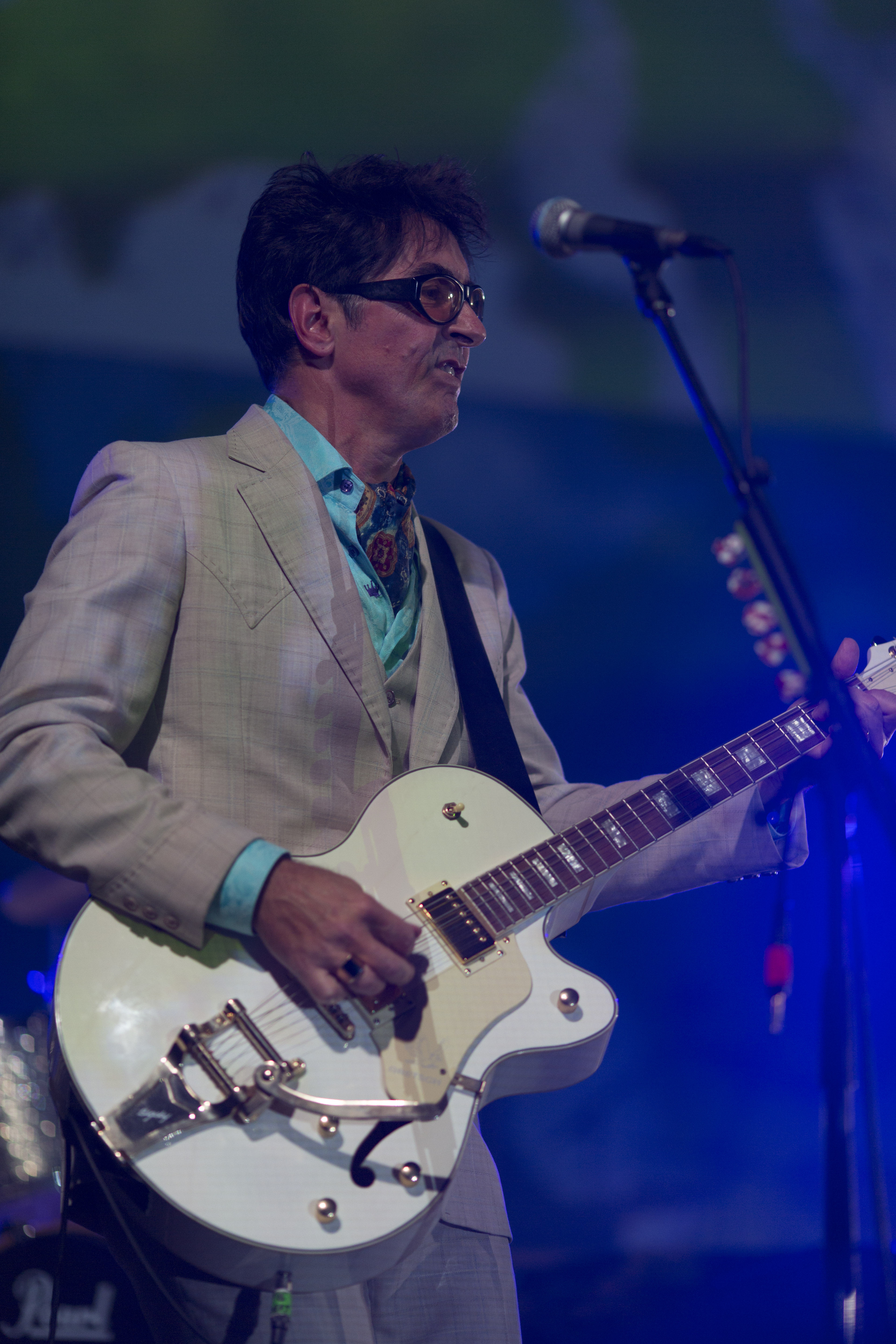 23rd May 2015